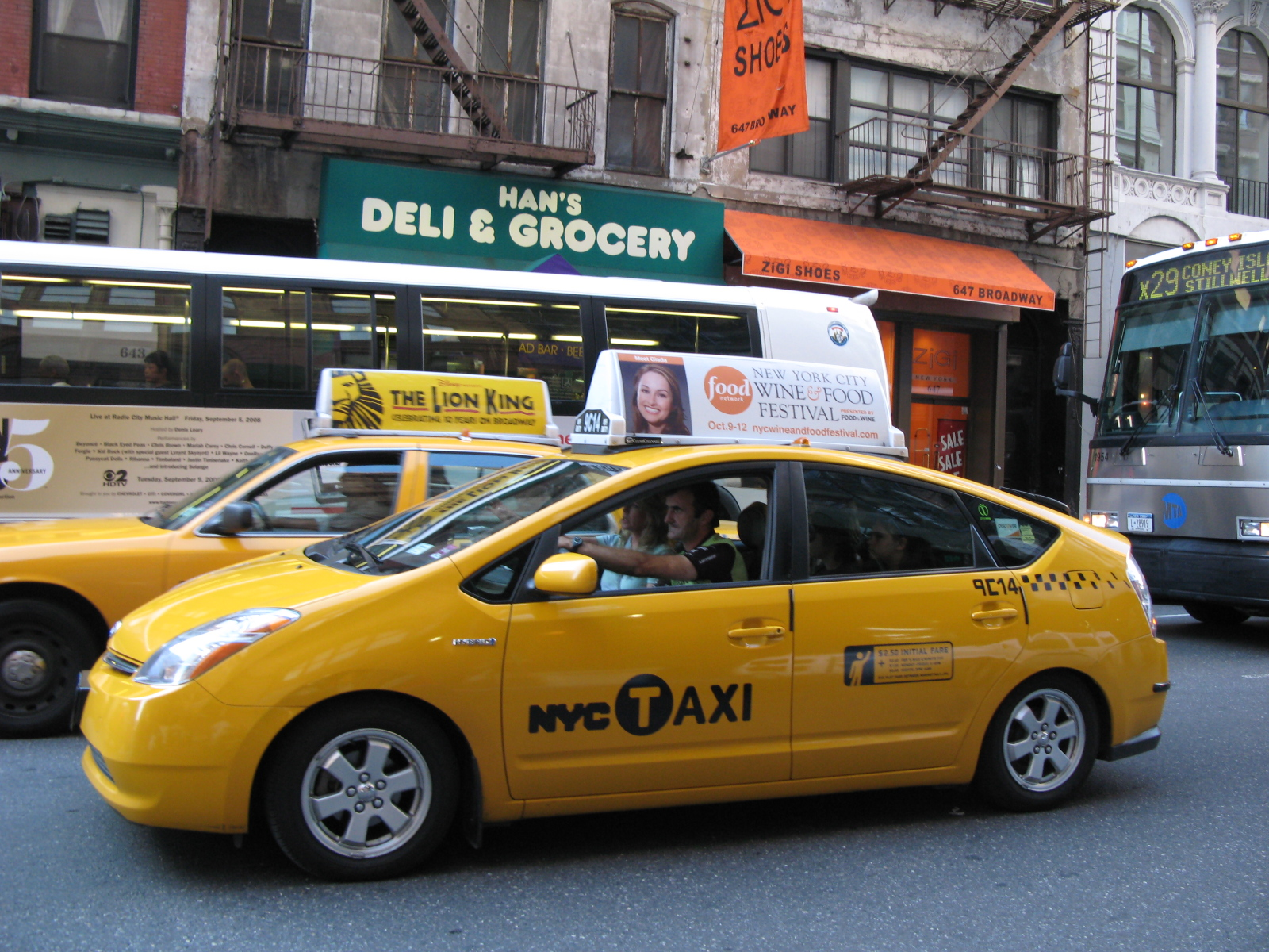 A Toyota Prius hybrid taxi in New York City.